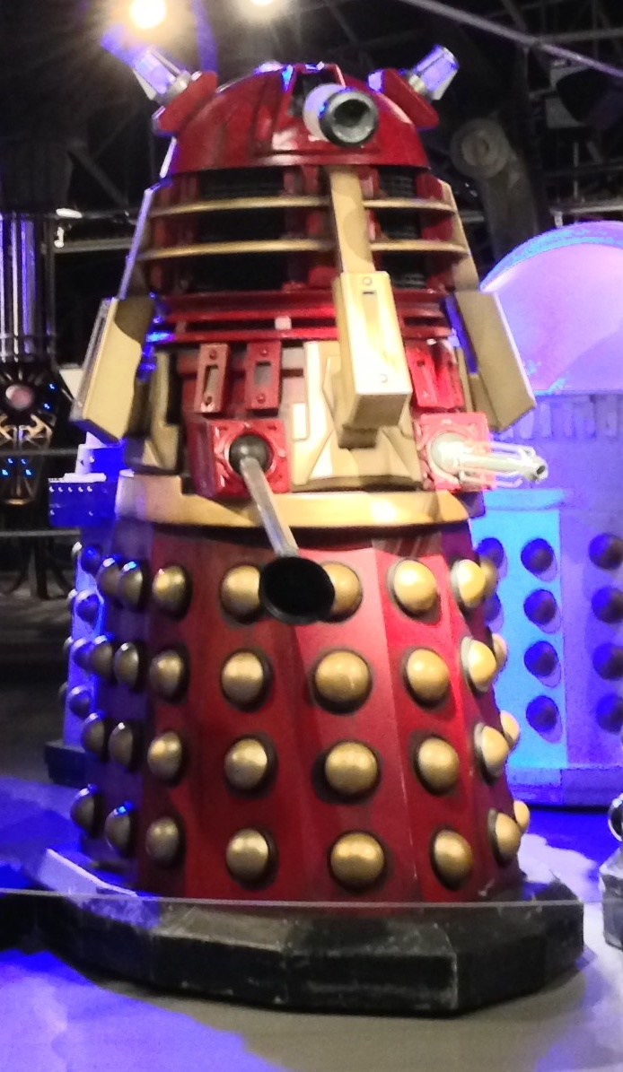 Array of Daleks Doctor Who Experience